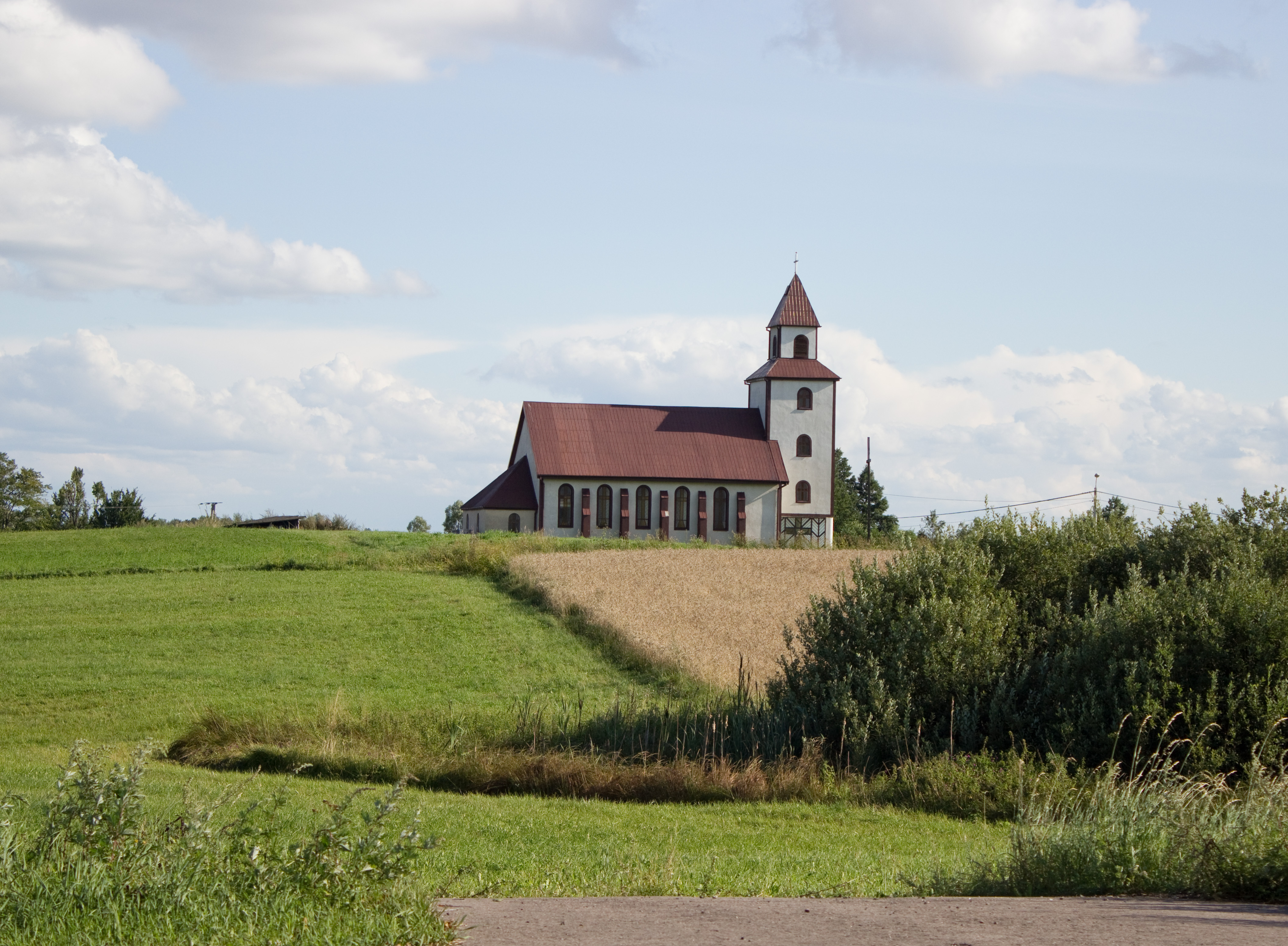 Church, Sędki, gmina Ełk, powiat ełcki, Warmian-Masurian Voivodeship